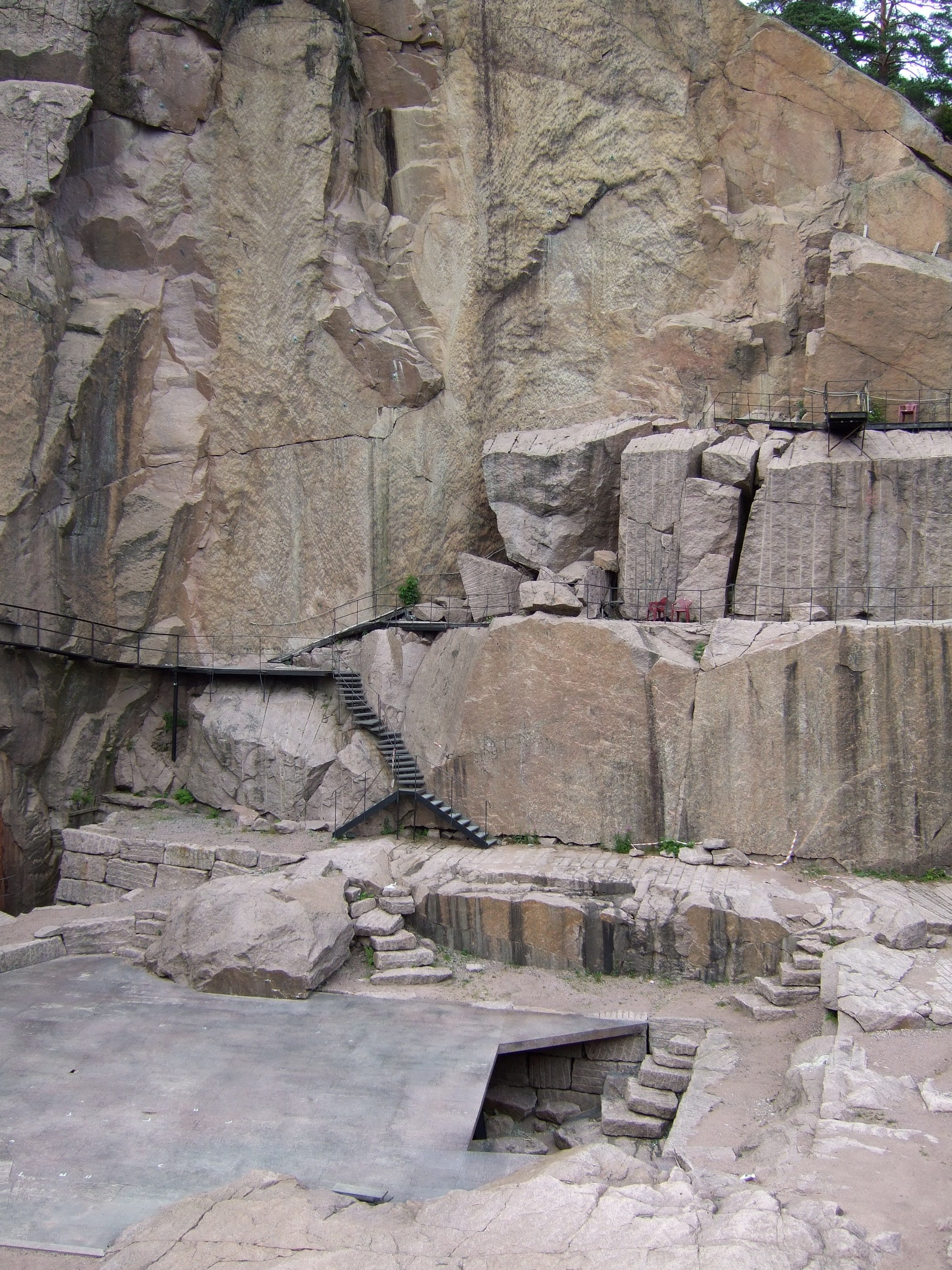 Agder Teater, Fjæreheia, granite wall as scene and background.